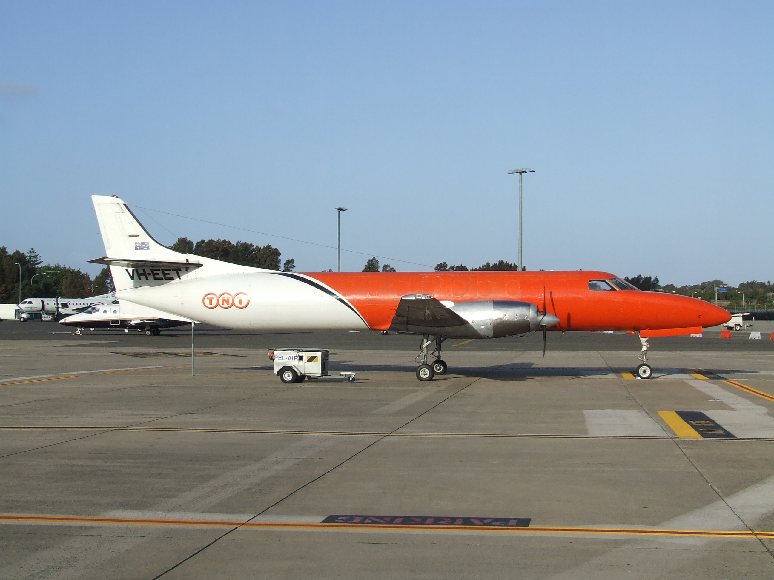 Pel-Air Metro III VH-EET has been converted to a freighter with the cabin windows removed to save on maintenance costs. It is shown here painted in TNT colours at Sydney International Airport waiting for its next load. Like many freight aircraft it flies almost exclusively at night. The small wheeled cart is a Ground Power Unit, used to provide electrical power for starting the aircraft's engines. Digital photo of VH-EET taken at Sydney Airport by YSSYguy on August 29 2007 for use in article about Pel-Air.